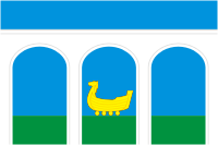 Rural settlement Mytishchi (Moscow oblast), flag